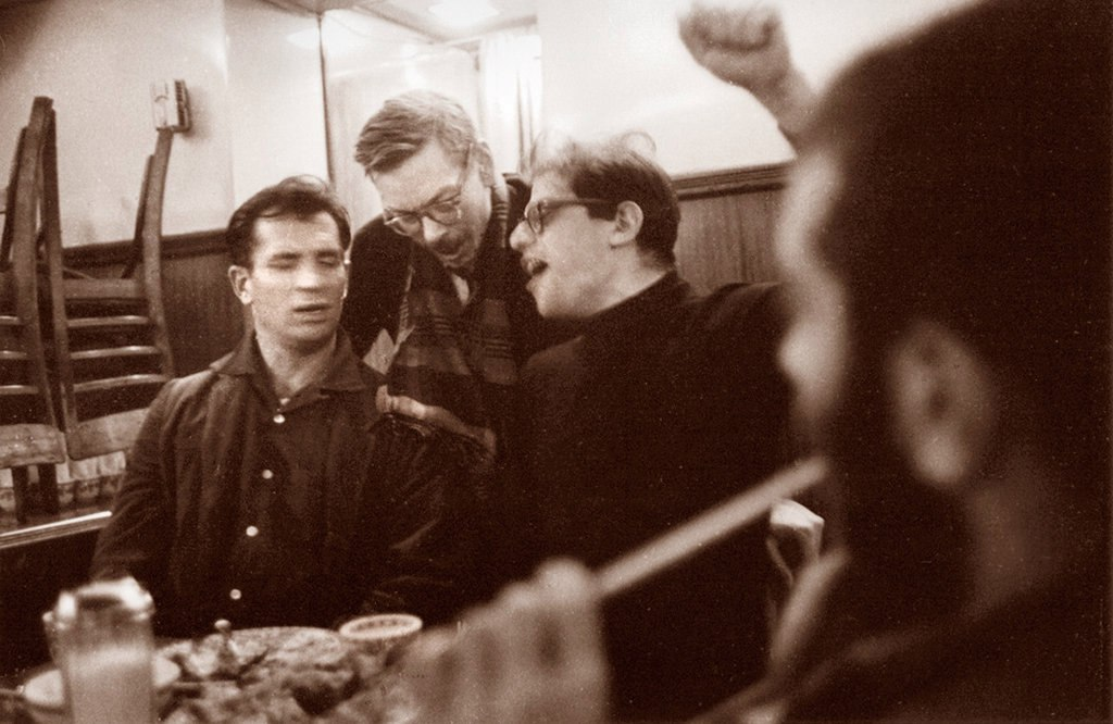 Beat Generation